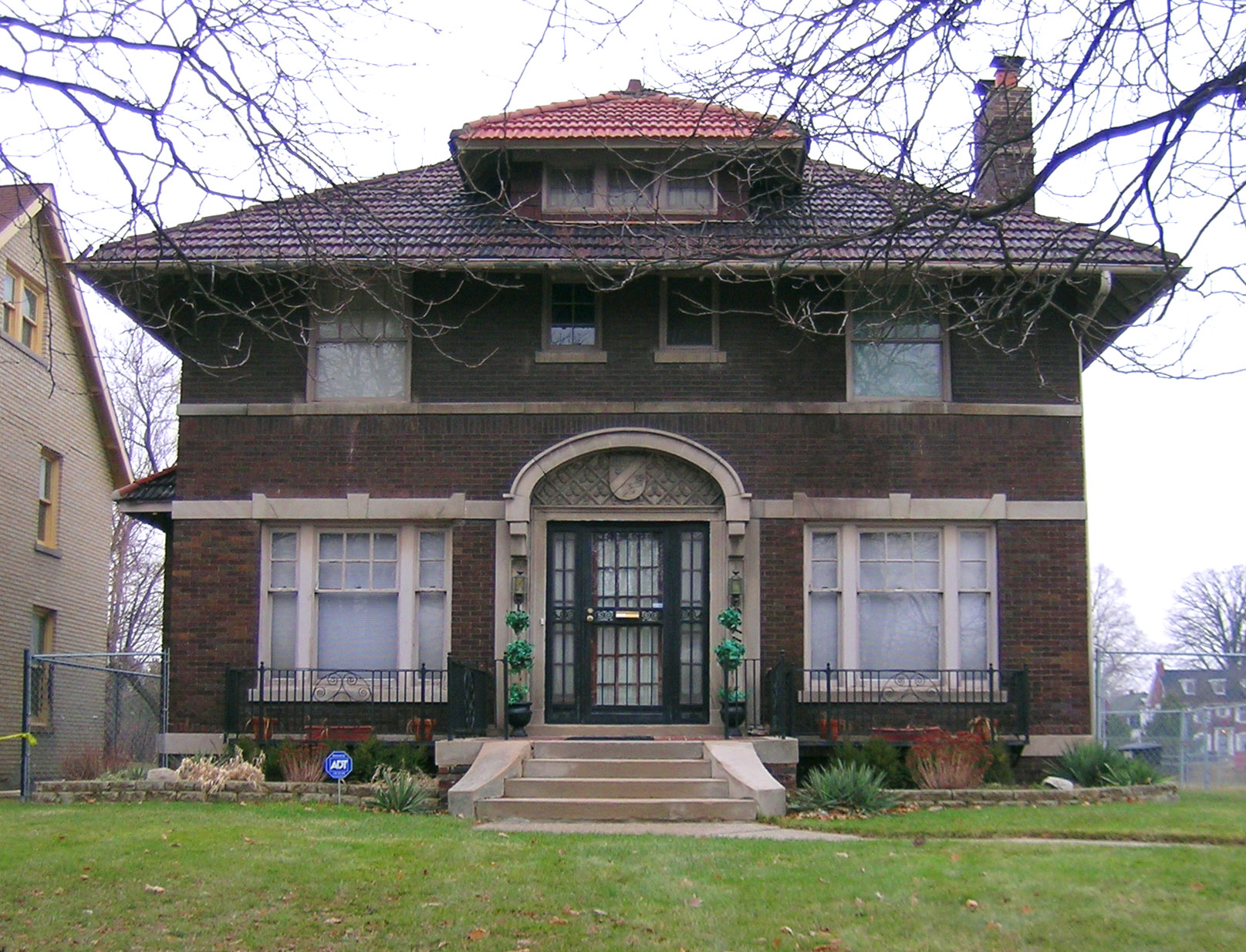 House on Chicago — in Detroit, Michigan. Contributing property to the Boston-Edison Historic District, and on the National Register of Historic Places.